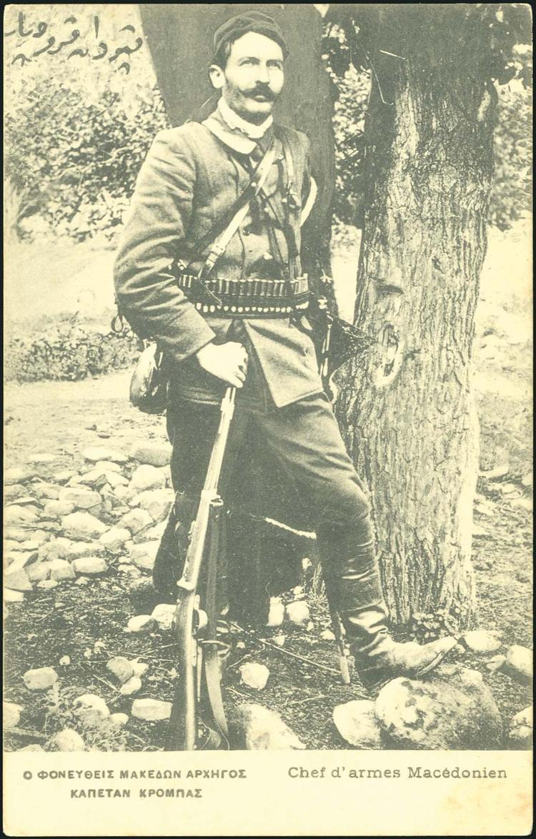 Marinos Liberopulos - Crombas